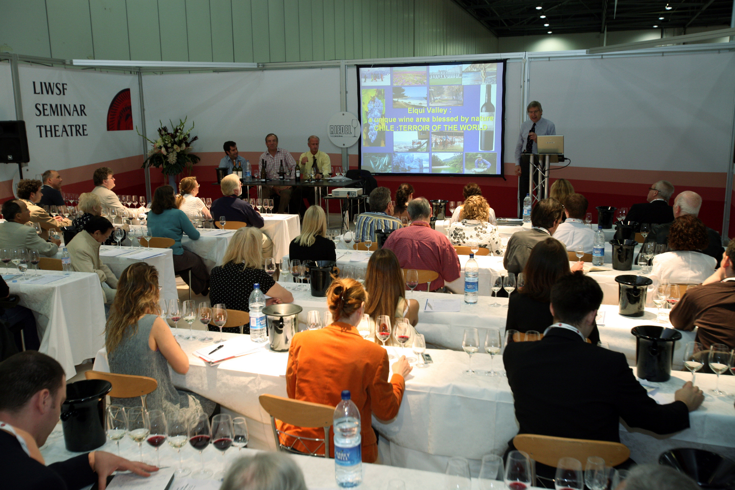 Seminar at the London International Wine Fair 2009, held at the ExCeL Exhibition Centre